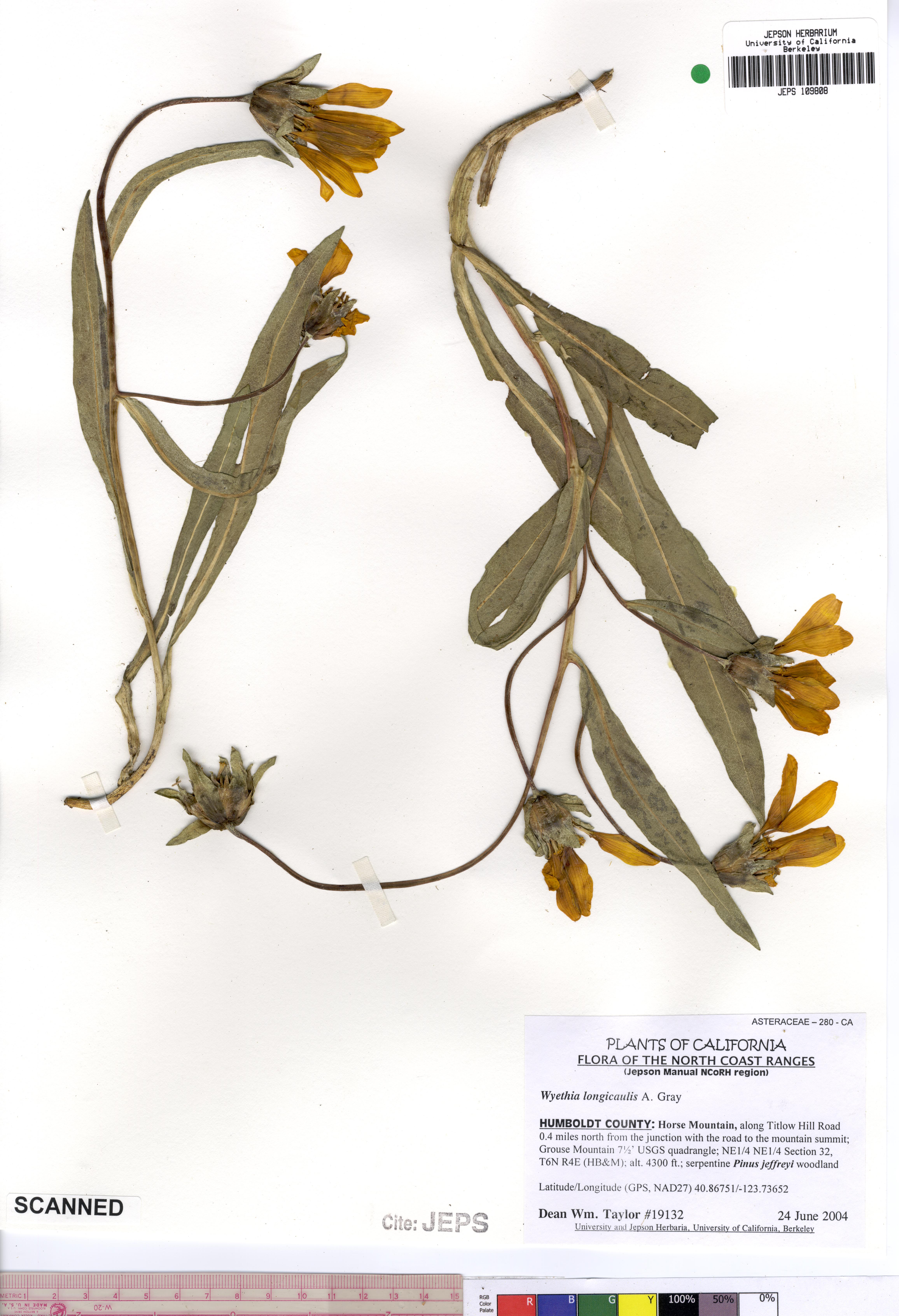 Wyethia longicaulis Jepson Herbarium specimen